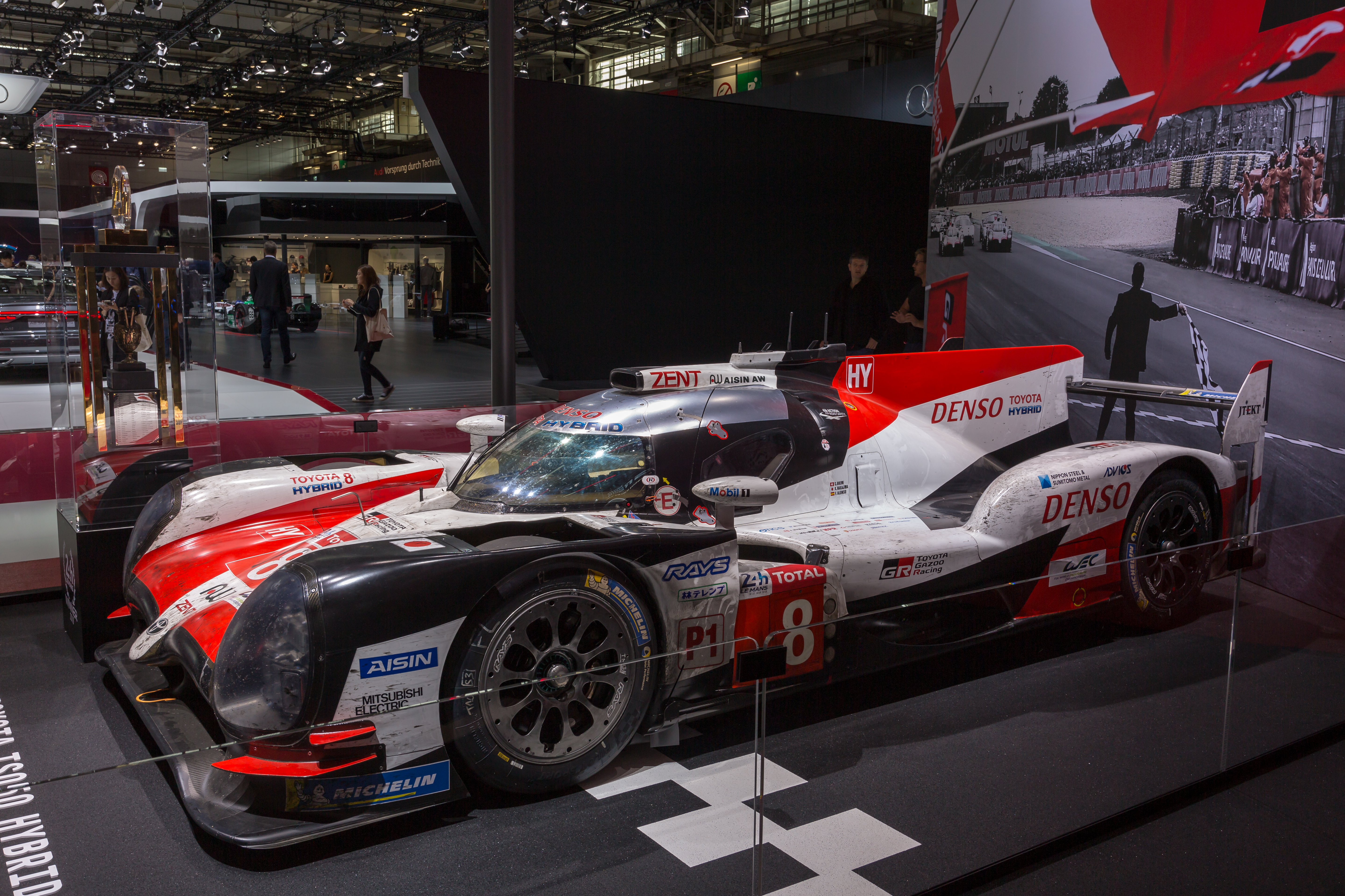 Toyota TS050 Hybrid at Mondial Paris Motor Show 2018